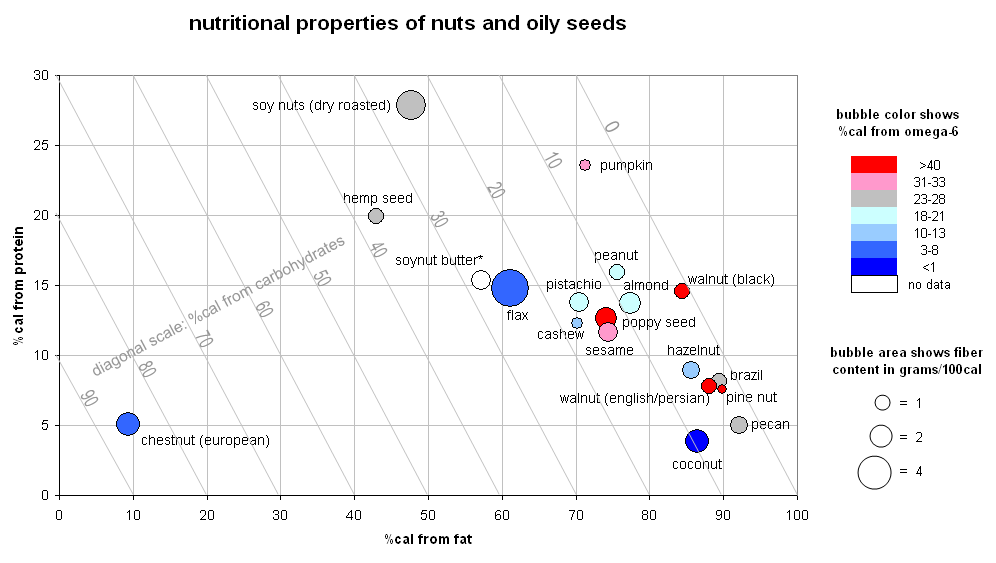 All data is from National Nutrient Database (NDB) for Standard Reference, version SR18, compiled by the Nutrient Data Laboratory, Agricultural Research Service, United States Department of Agriculture (USDA), with the exception of the hemp seed, which information came from the product label, and the *soy nut butter (a commercially prepared mixture: I.M. Healthy brand Original Creamy Soynut Butter), for which protein, fat, carbohydrate, fiber, and sugar came from the label and the W-6 fatty-acid content was deduced from total fat content (all soya derived) times the ratio found in the USDA NDB record for soya beans. This chart was produced using Microsoft Excel 2003. Labels were attached by using a separate "series" for each data point , and showing data labels for series name. Colors were added manually to each data point.